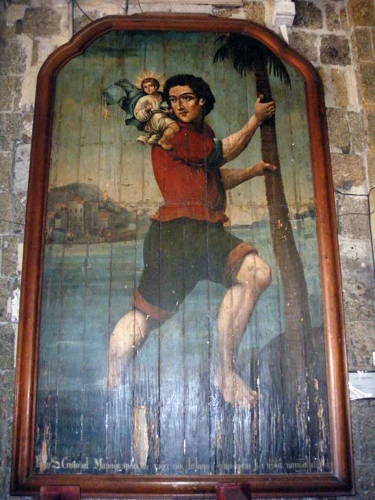 A Church Mural in Paete, Laguna, Philippines. Created during the Spanish Colonial Era.